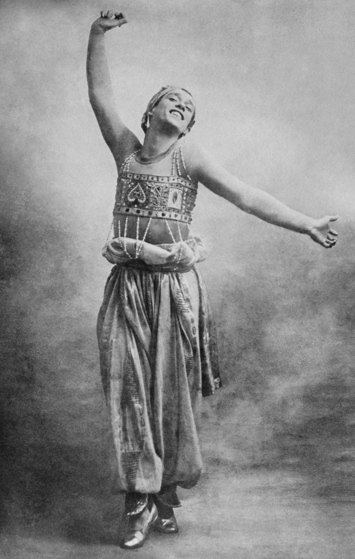 Vaslav Nijinsky in Scheherazade. "Nijinsky". 1 negative : glass ; 5 x 7 in or smaller.